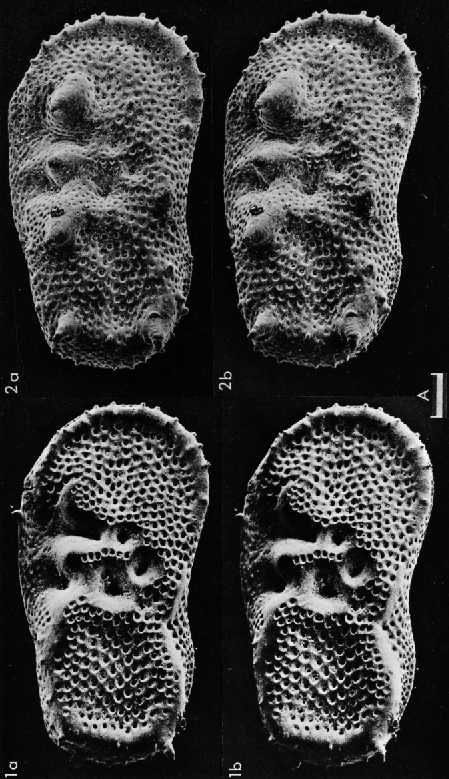 Crustacea, Ostracoda: View at the external side of right valves of Juxilyocypris schwarzbachi (Kempf, 1967) Kempf, 2011. Length of female shell (above) = 0.85 mm, length of male shell (below) = 0.80 mm. Illustrated species reveals strong sexual shell dimorphism. The images are scanning electron micrographs (SEM), taken and arranged to form stereo-pairs, a kind of producing stereoscopic images. Try to see the objects three-dimensionally without special spectacles! The specimens were found in presumably cold-water Middle Pleistocene loess sediments, collected in clay pit Kaerlich near Koblenz, Germany.